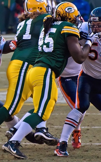 Lambeau Field - January 2, 2011. Photo by Mike Morbeck.